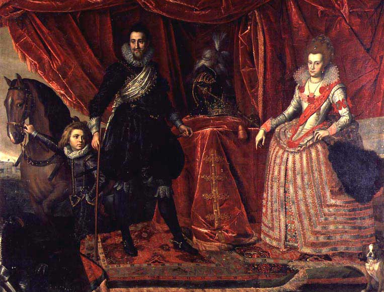 King Christian IV of Denmark and his first wife Anne Catherine of Brandenburg. It was originally two separate portraits. The King was painted by Pieter Isaacsz, c. 1612 Chr. IV og Anne Cathrine, 1612. Rosenborg Castle